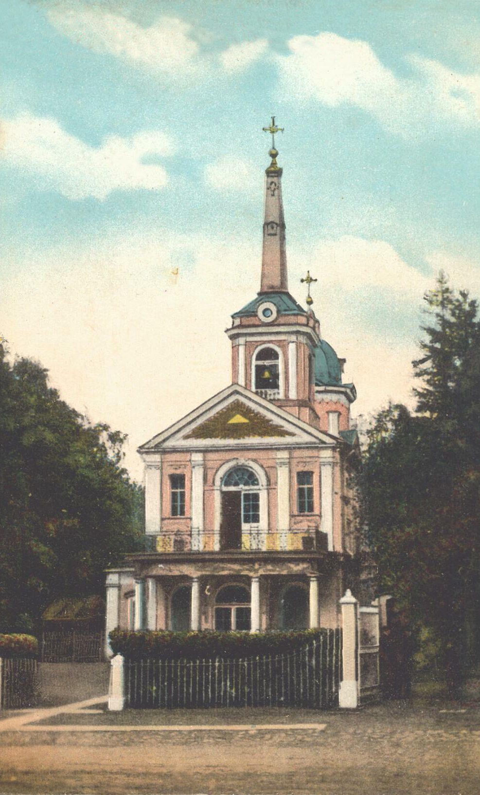 Tsarskoye Selo (Russia)